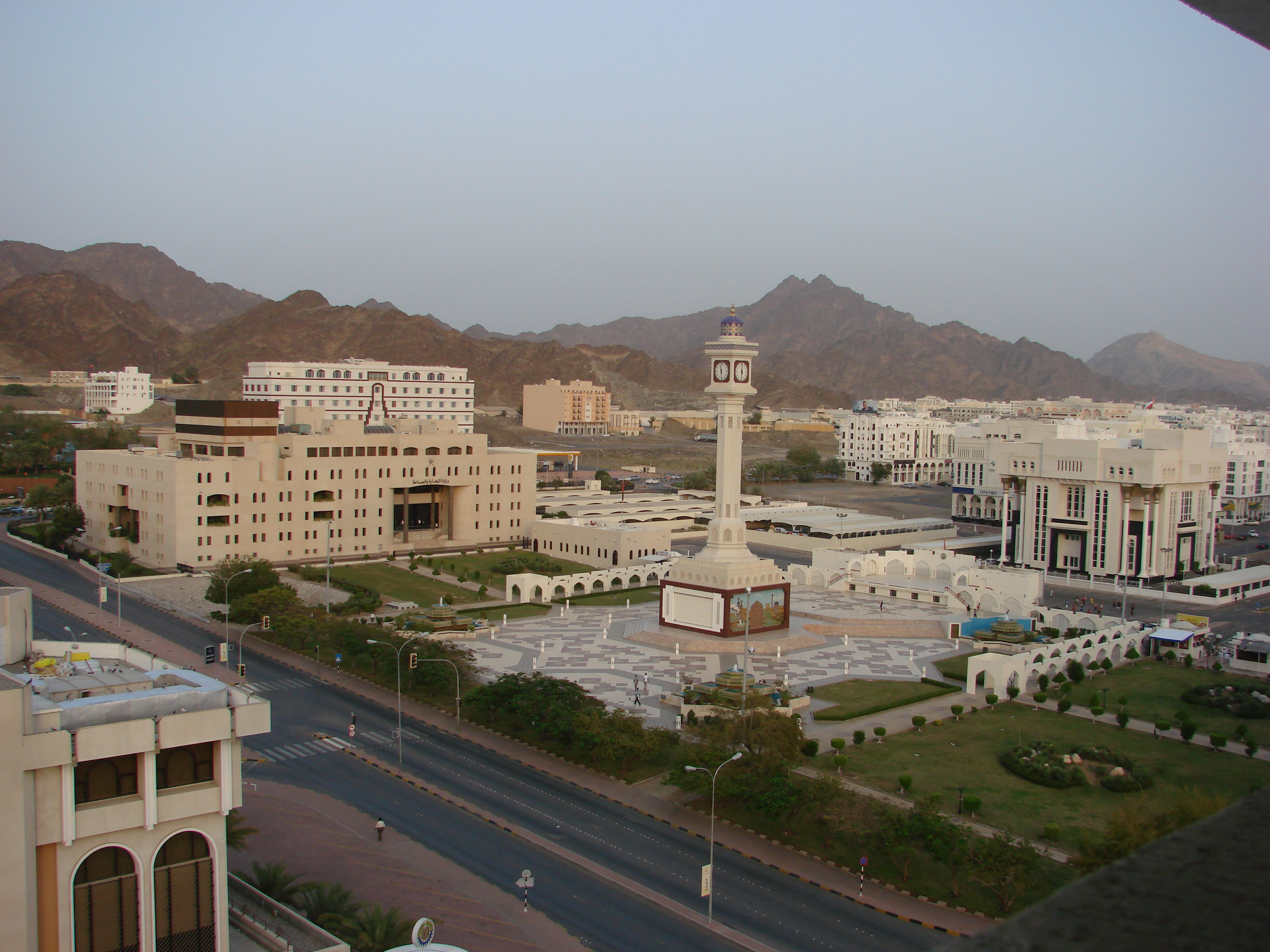 CENTRAL BUSINESS DISTRICT KNOWN AS RUWI. MUSCAT OMAN